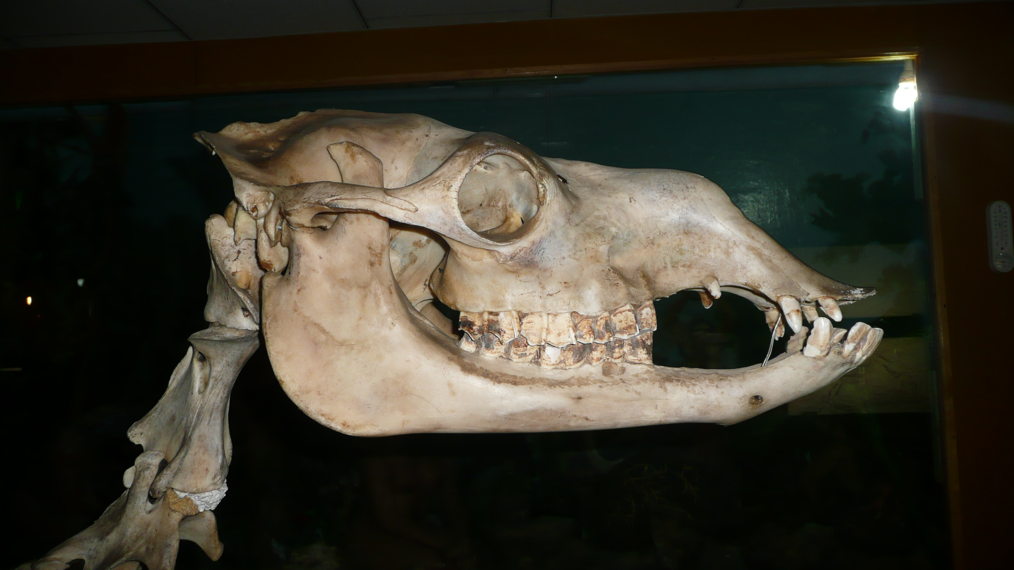 Camel skull in the Museum South Gobi in Dalanzadgad